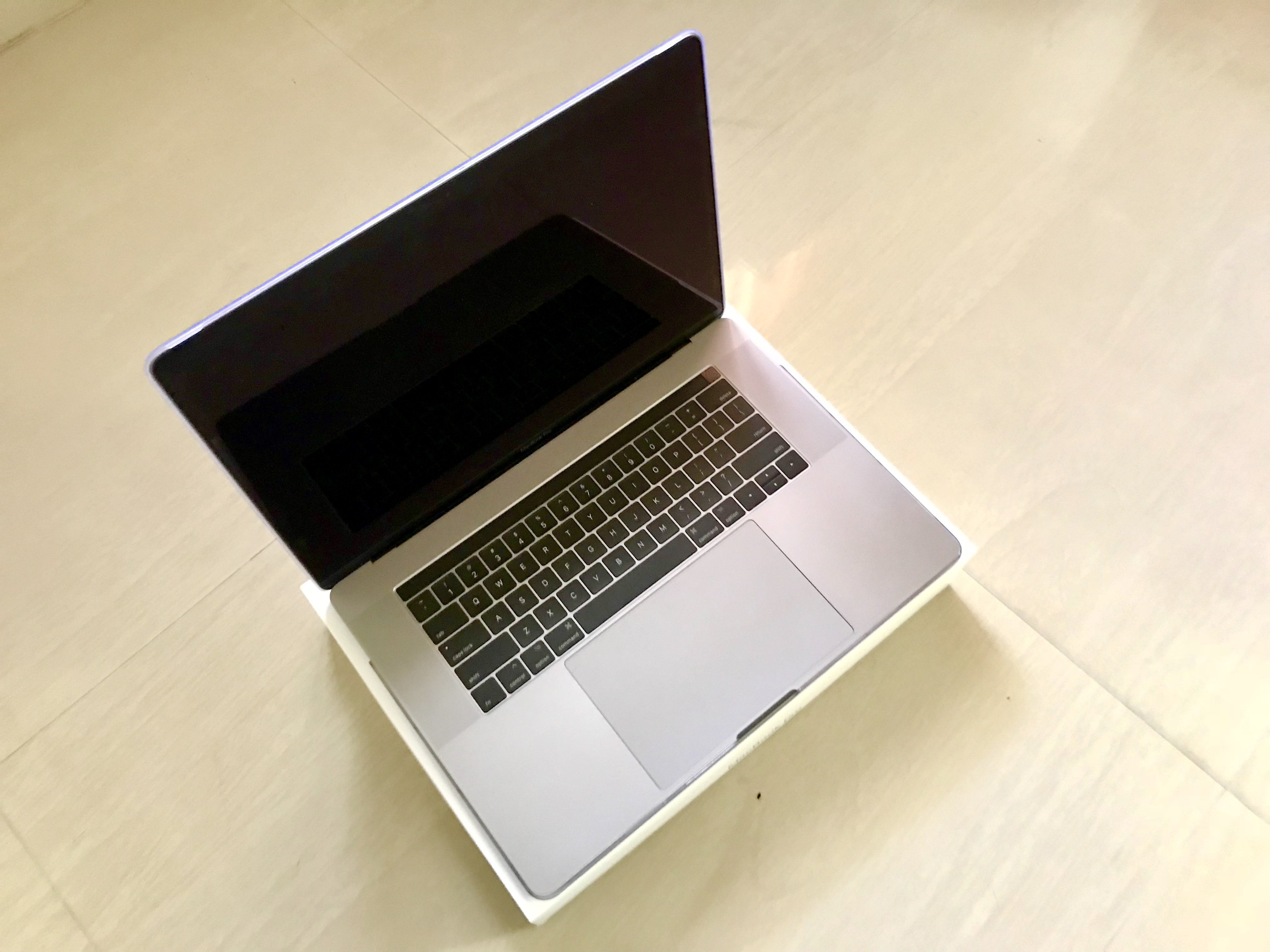 15" Macbook pro with touch bar on its box